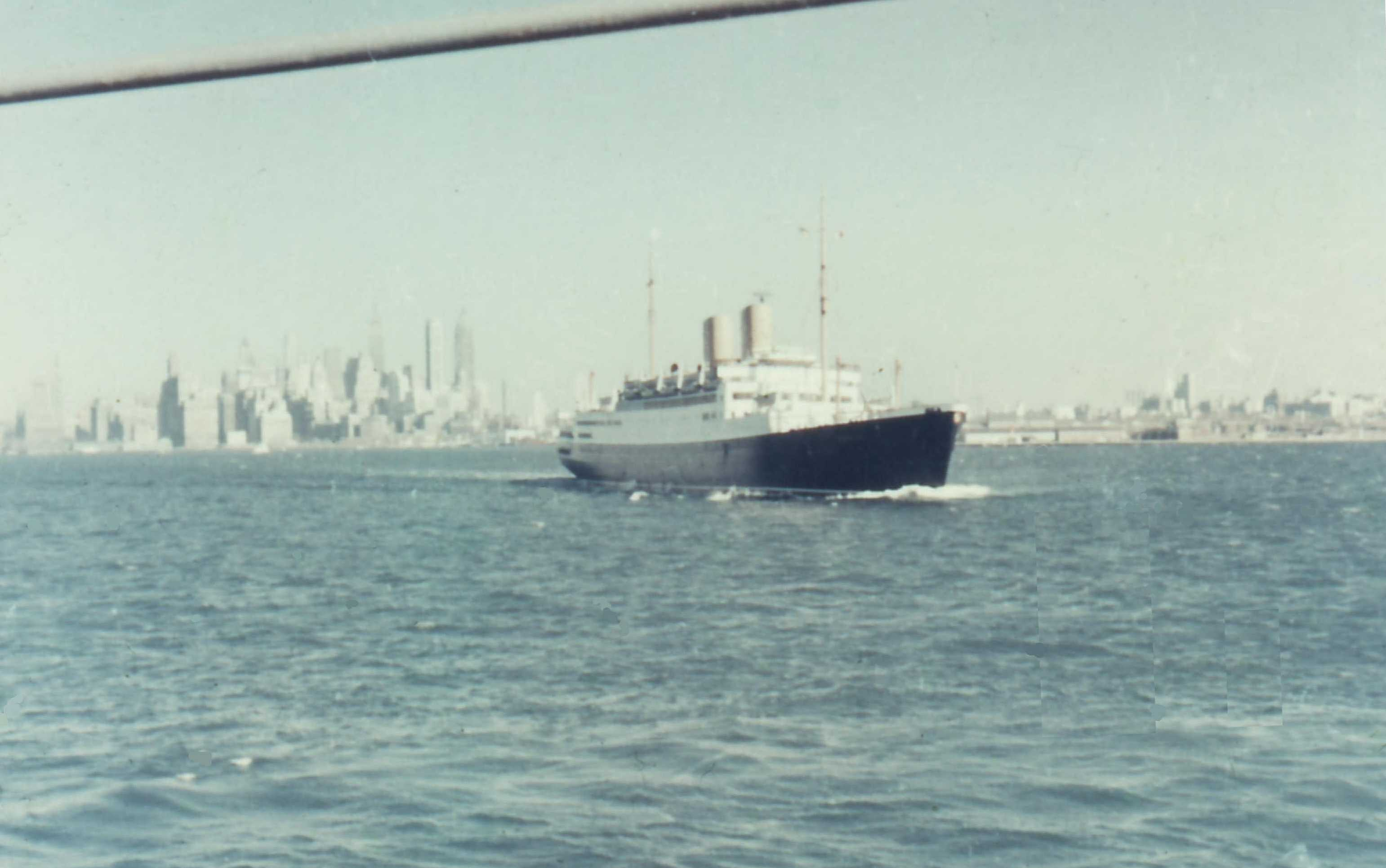 West German passenger ship Berlin runs from New York City - 1957